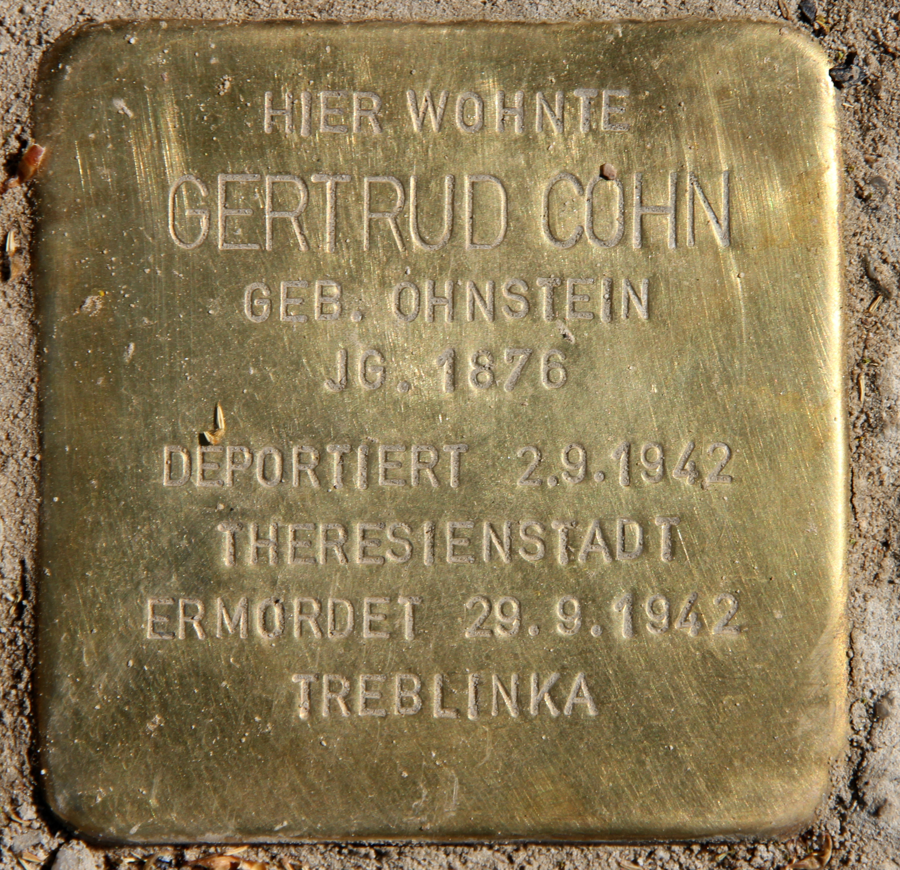 "Stolperstein" (stumbling block), Gertrud Cohn, Nikolsburger Platz 4, Berlin-Wilmersdorf, Germany